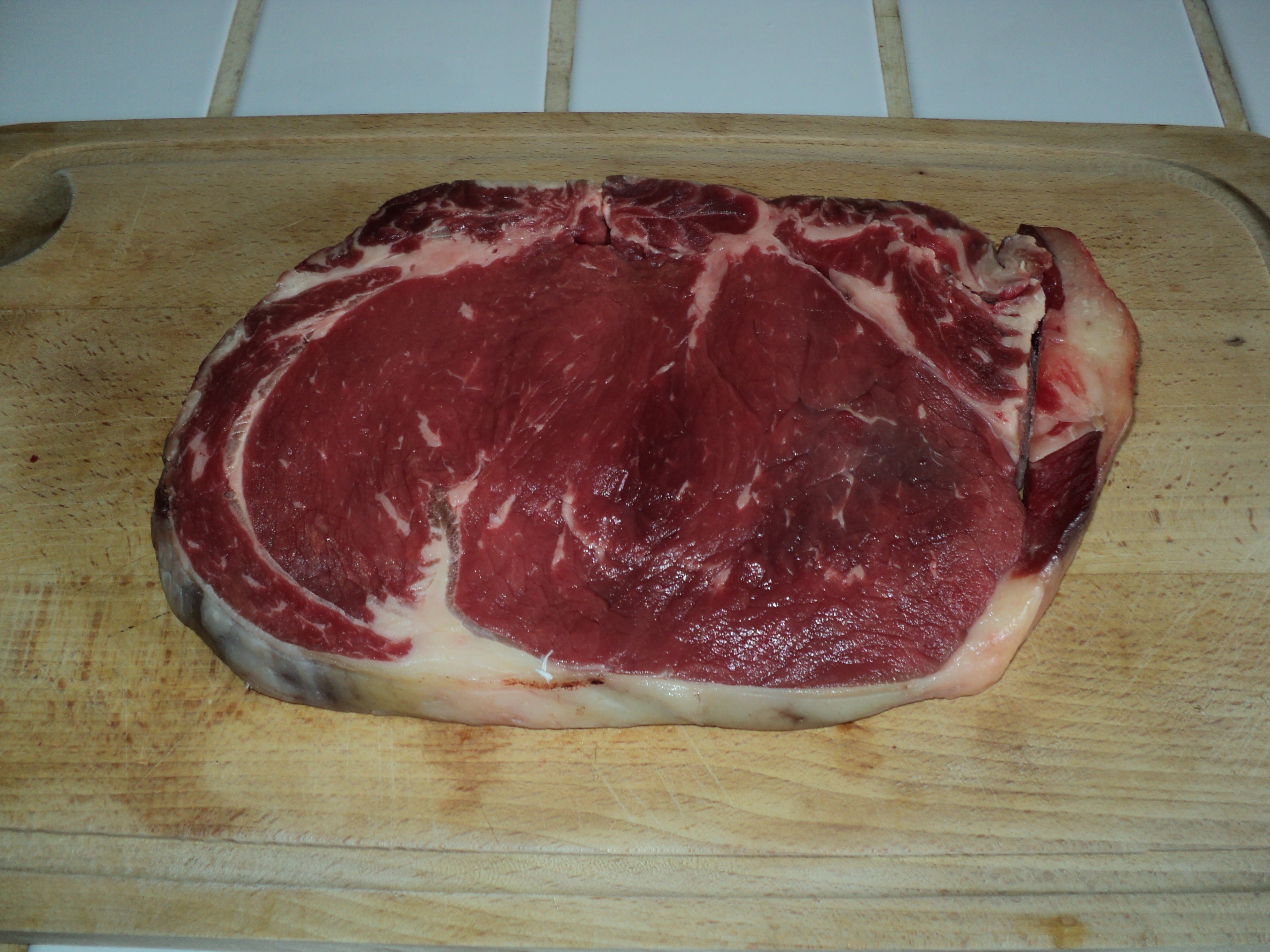 A faux-filet steak (about 1,5 cm thick). In French, the faux-filet primal cut corresponds more or less to the cuts called, in English, striploin, sirloin or short loin.